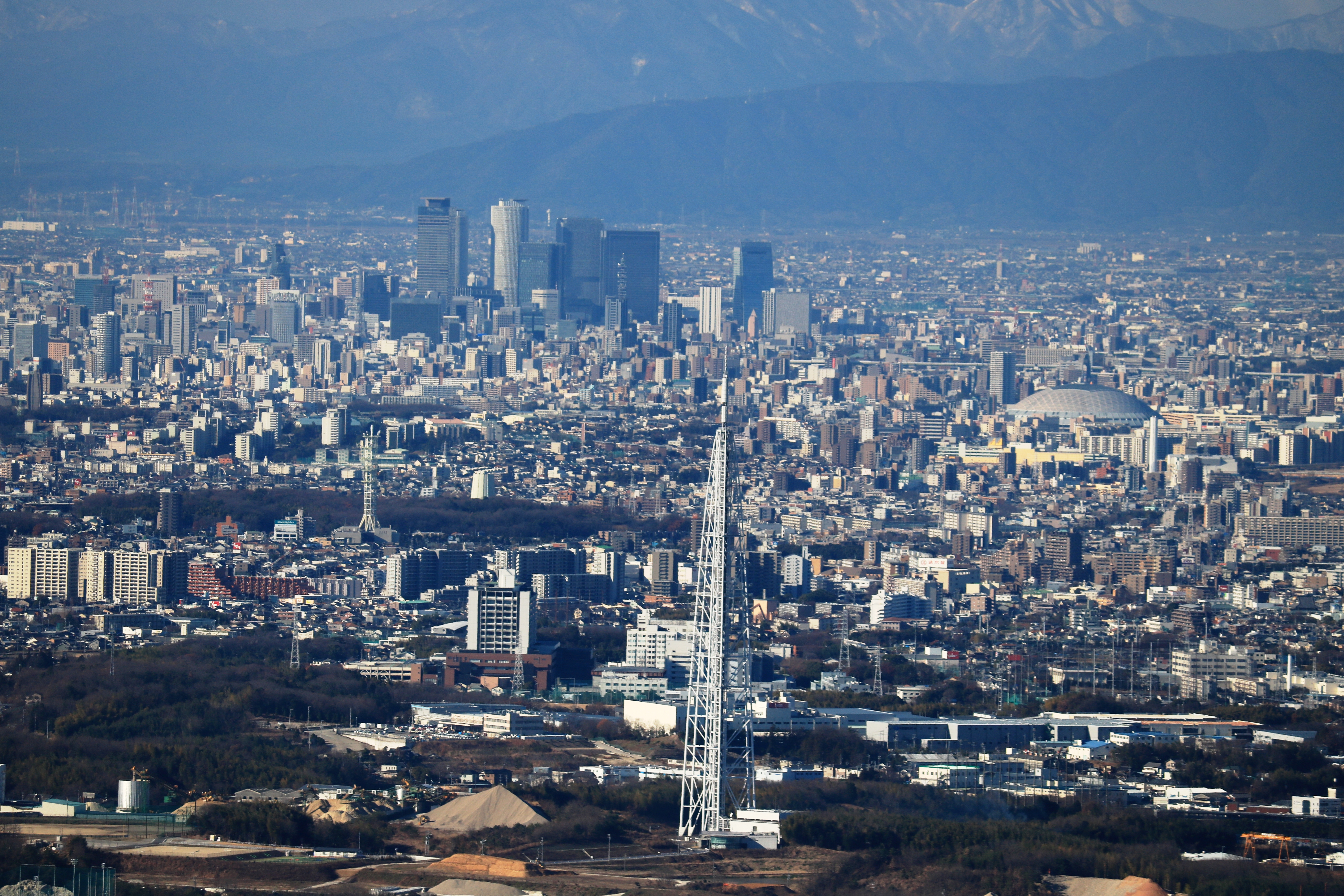 Seto Digital Tower and Nagoya seen from Mount Sanage in Aichi prefecture, Japan.